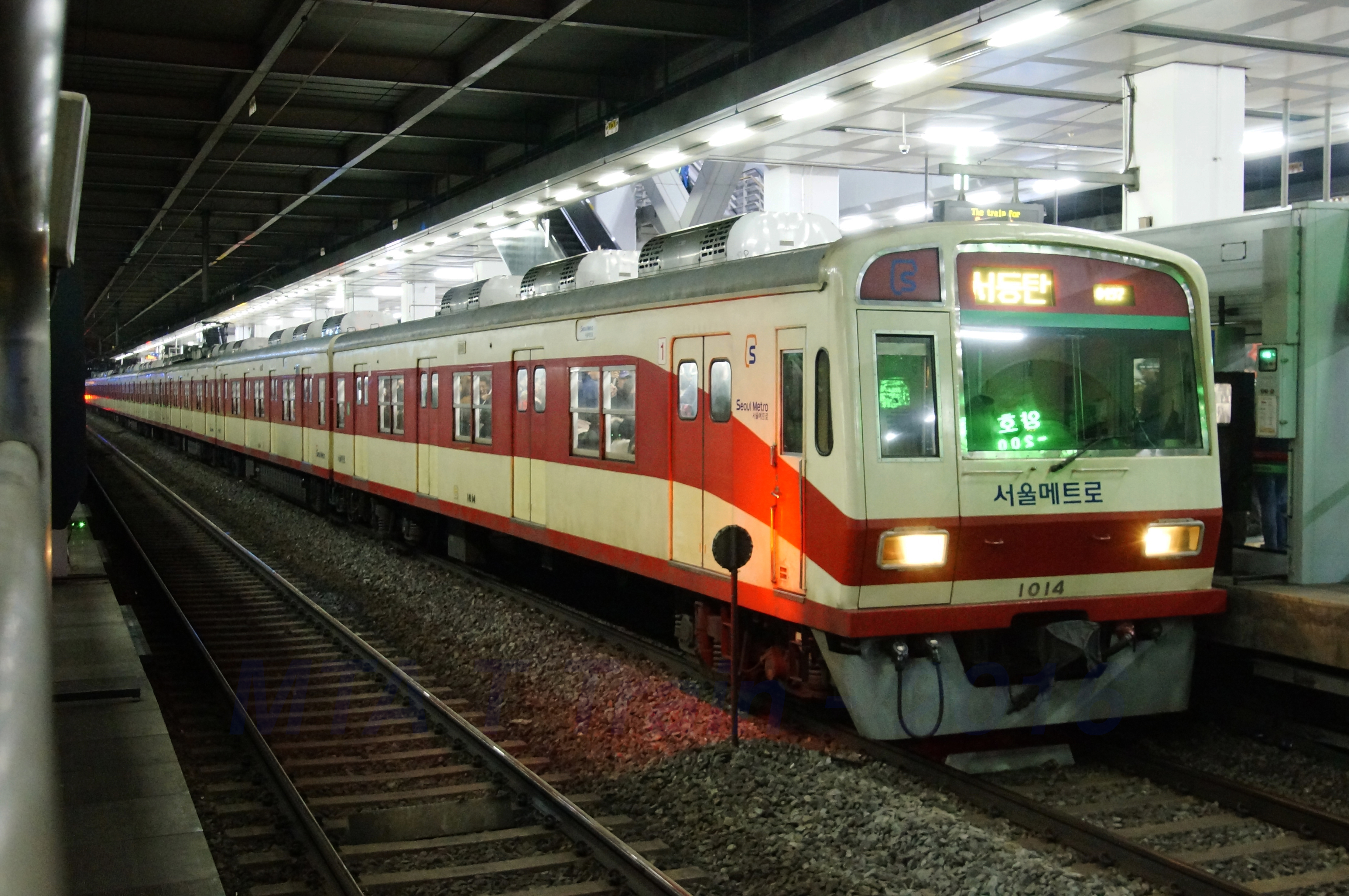 Seodongtan-bound Seoul Metro Line 1 train of refurbished rheostatic cars (train 14) at Yongsan.